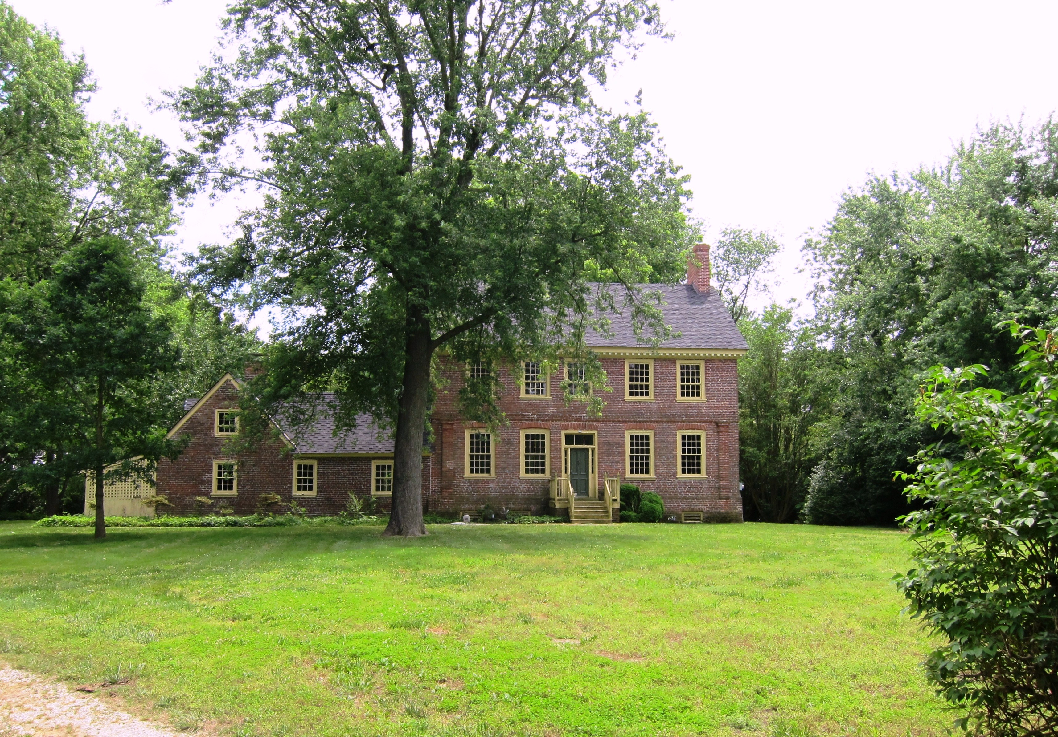 Friendship Hall (circa 1740)